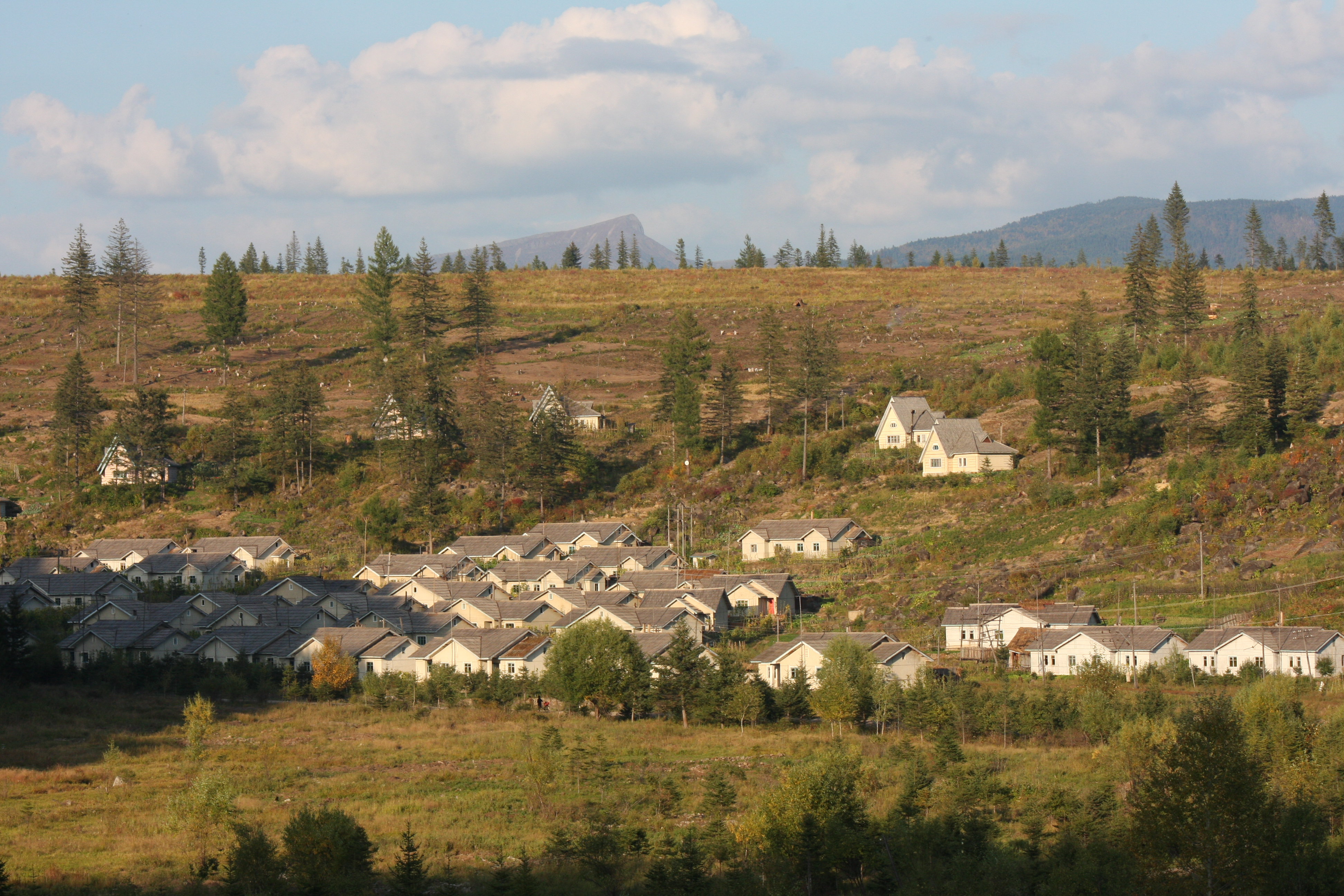 The village of Rimyongsu, North Korea